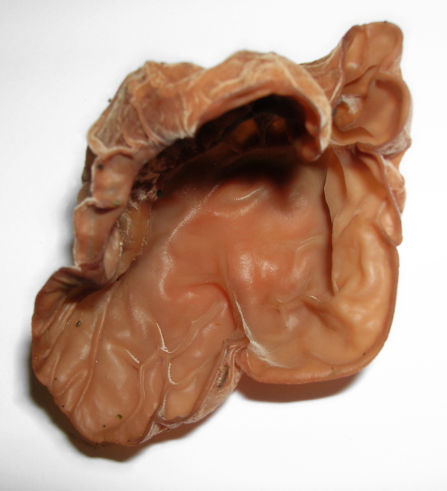 The Jew's or Jelly Ear Fungus in Scotland